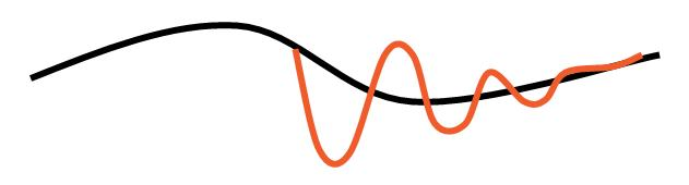 The Lehman Wave superposed on the long term economic cycle